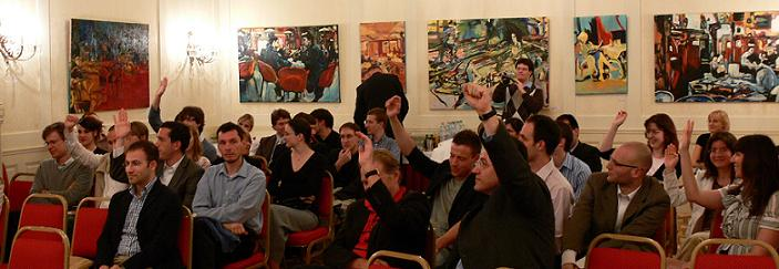 The future of Transatlantic Relations - a debate